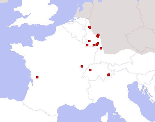 Distribution of epigraphic dedications to Cissonius or Cisonius (with or without the qualifiers deo, Mercurio etc) in Gaul and Raetia. Also includes one inscription that could be interpreted as either (Mercu)rio Ci(ssonio) or (Mercu)rio Ci(mbriano).